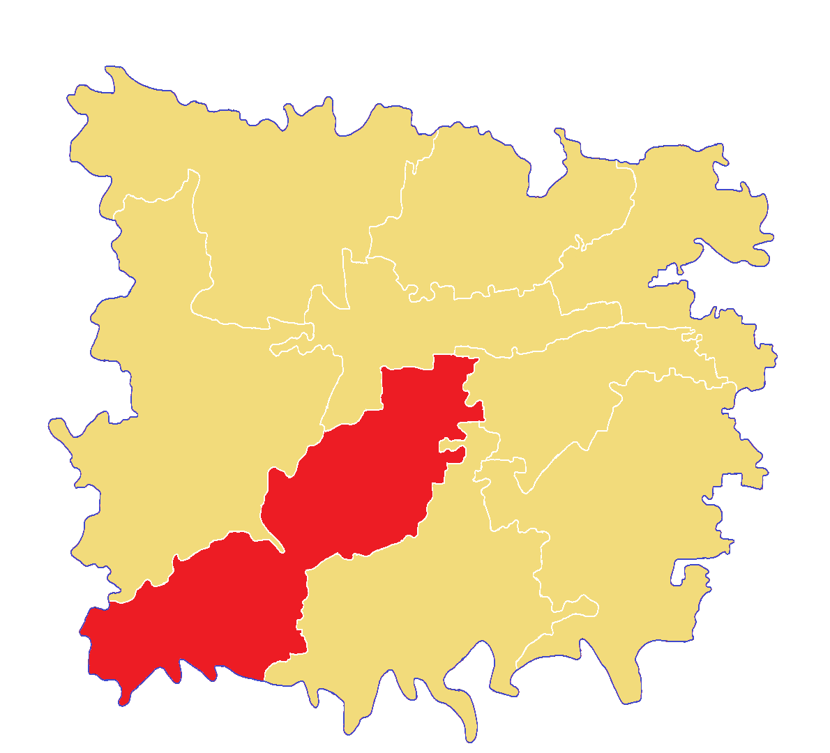 Location of Raniganj Union in Jagannathpur Upazila